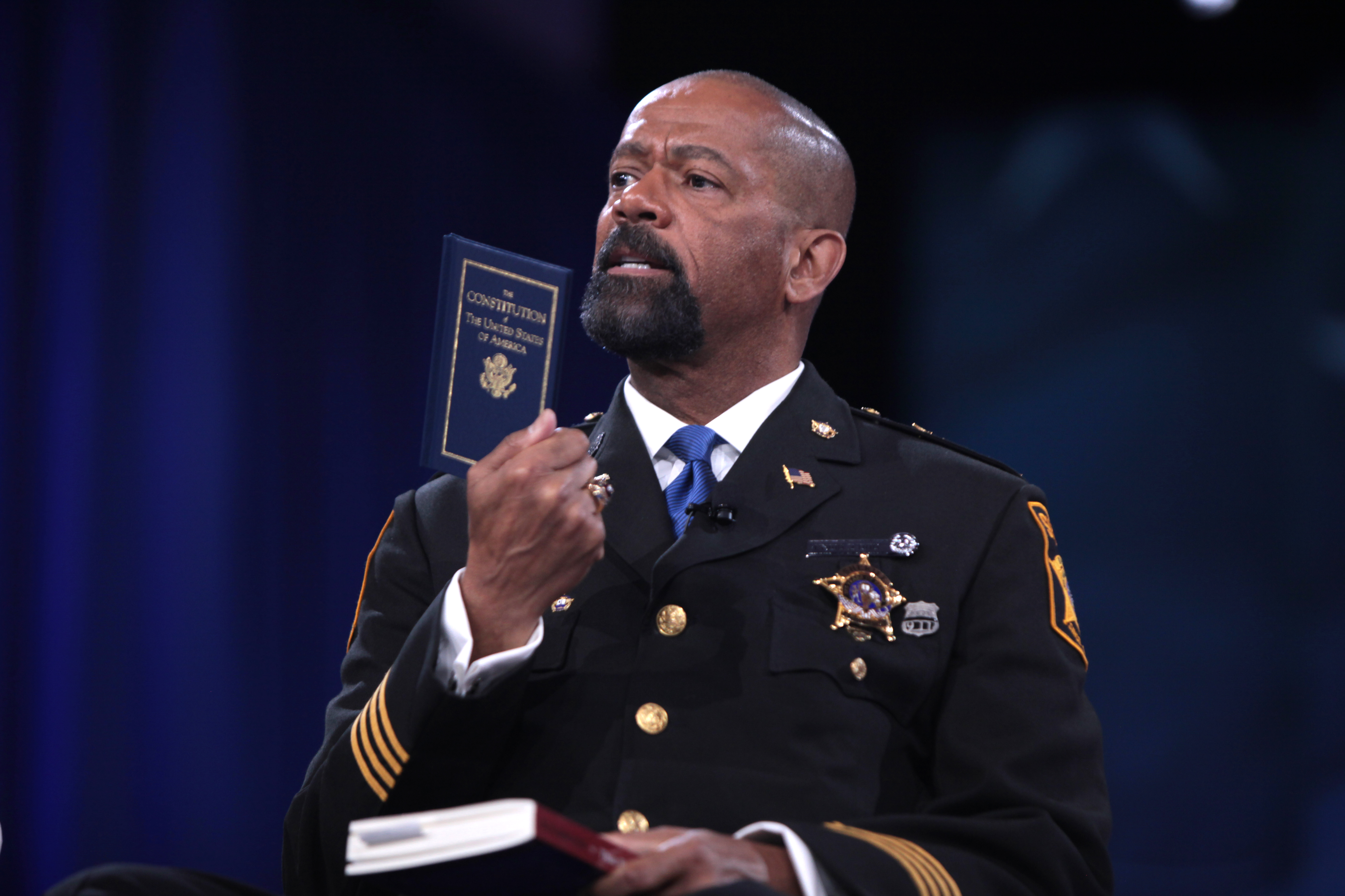 Sheriff David Clarke speaking at the 2016 Conservative Political Action Conference (CPAC) in National Harbor, Maryland.